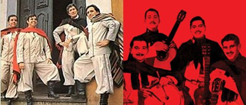 Los Cantores de Quilla Huasi. Argentinean folk group (Carlos Lastra, Oscar Valles, Roberto Palmer, Ramón Navarro).